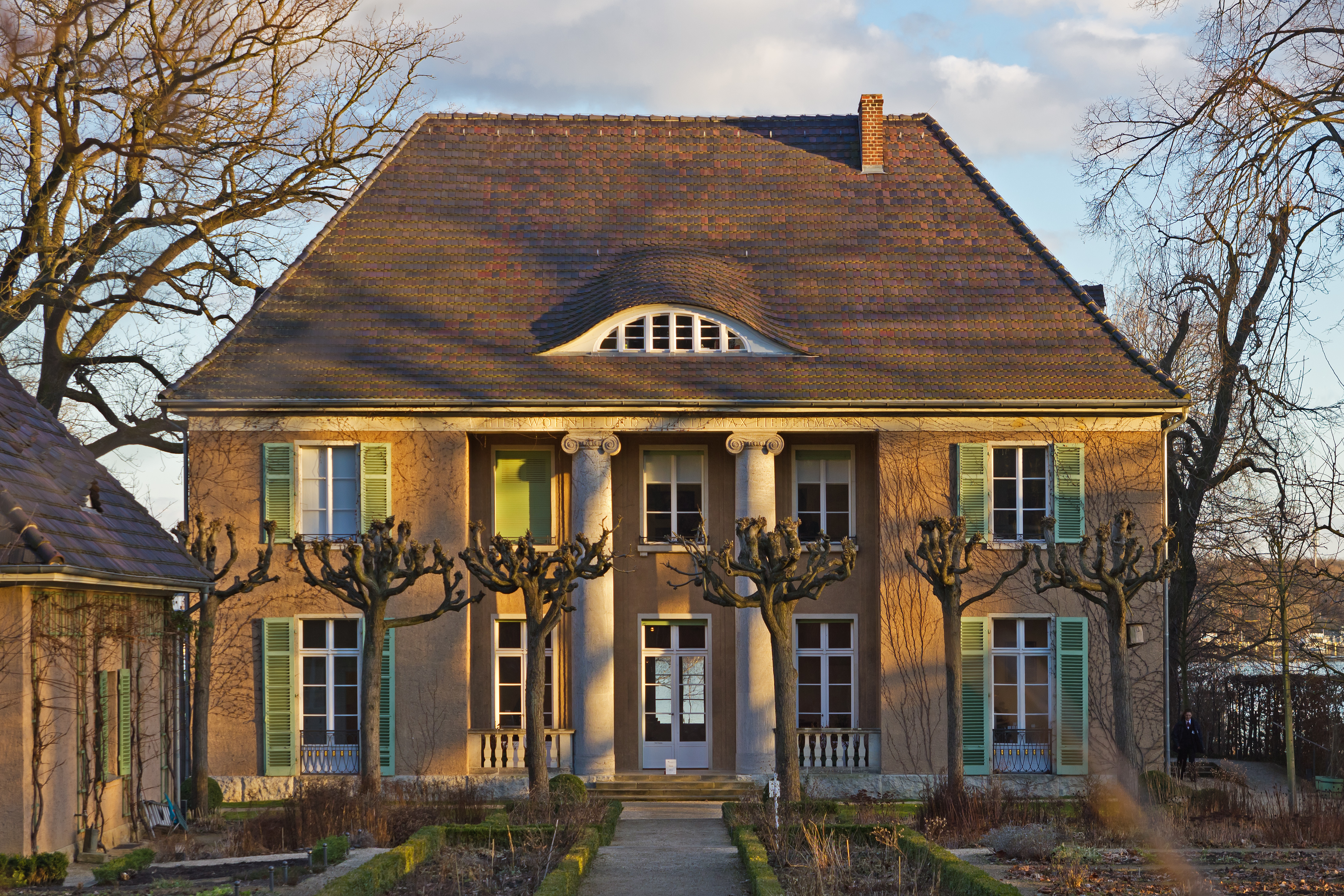 Liebermann manor in Berlin-Wannsee, Germany